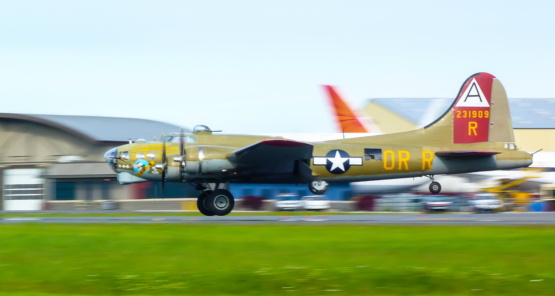 Photo taken on Friday, June 15, 2012 during the Collings Foundation visit to Paine Field, Washington of their "Nine O Nine" B-17G Flying Fortress' visit.